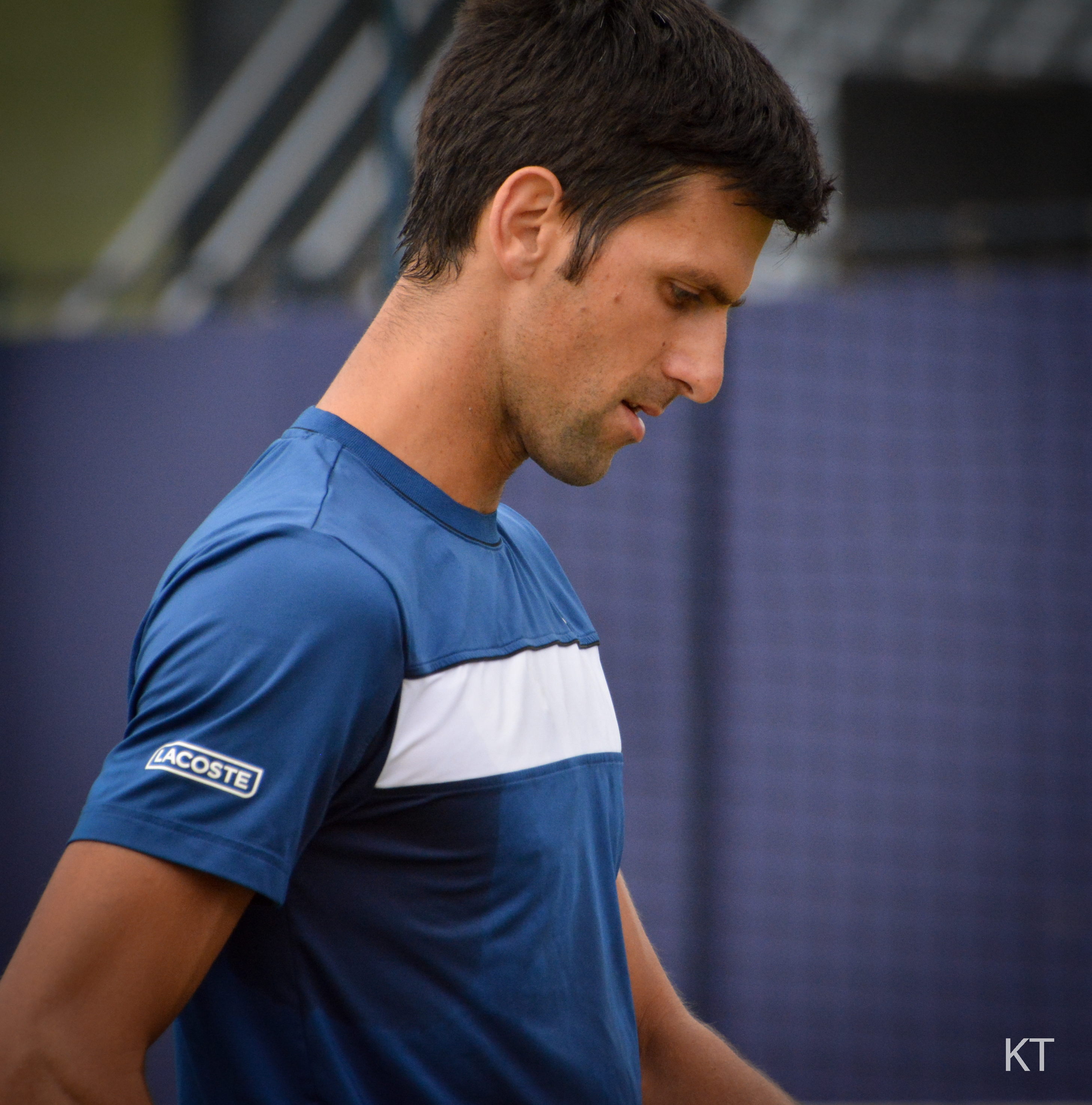 Novak Djokovic, Serbian professional tennis player, at the 2018 Queen's Club Championships